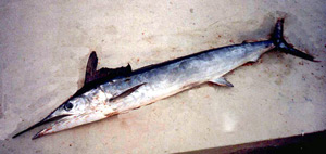 Picture of Tetrapturus belone (Mediterranean spearfish)